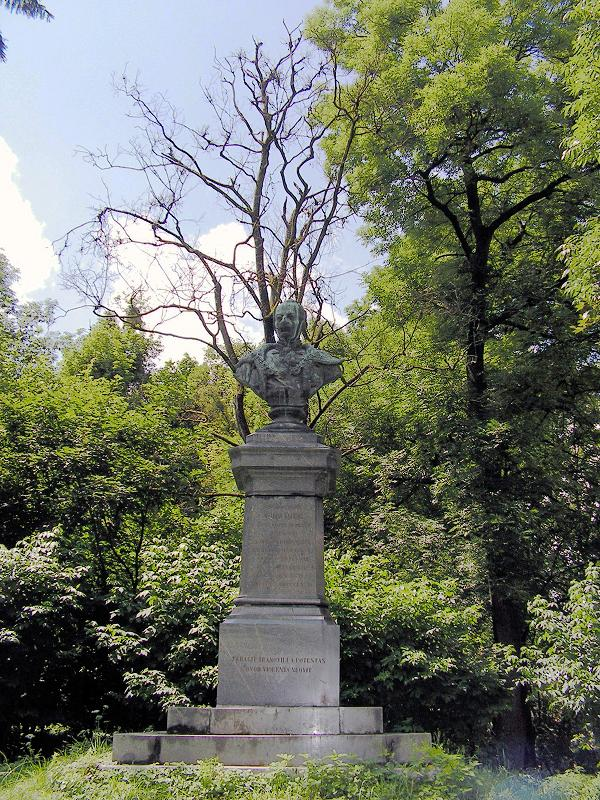 Statue of Imre Mikó in the Mikó Gardens in Cluj-Napoca